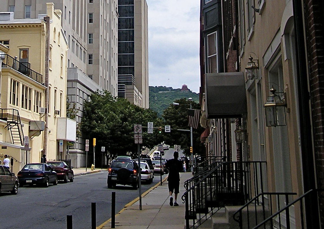 Downtown Reading, Pennsylvania; with Berks County courthouse on left; July 2007